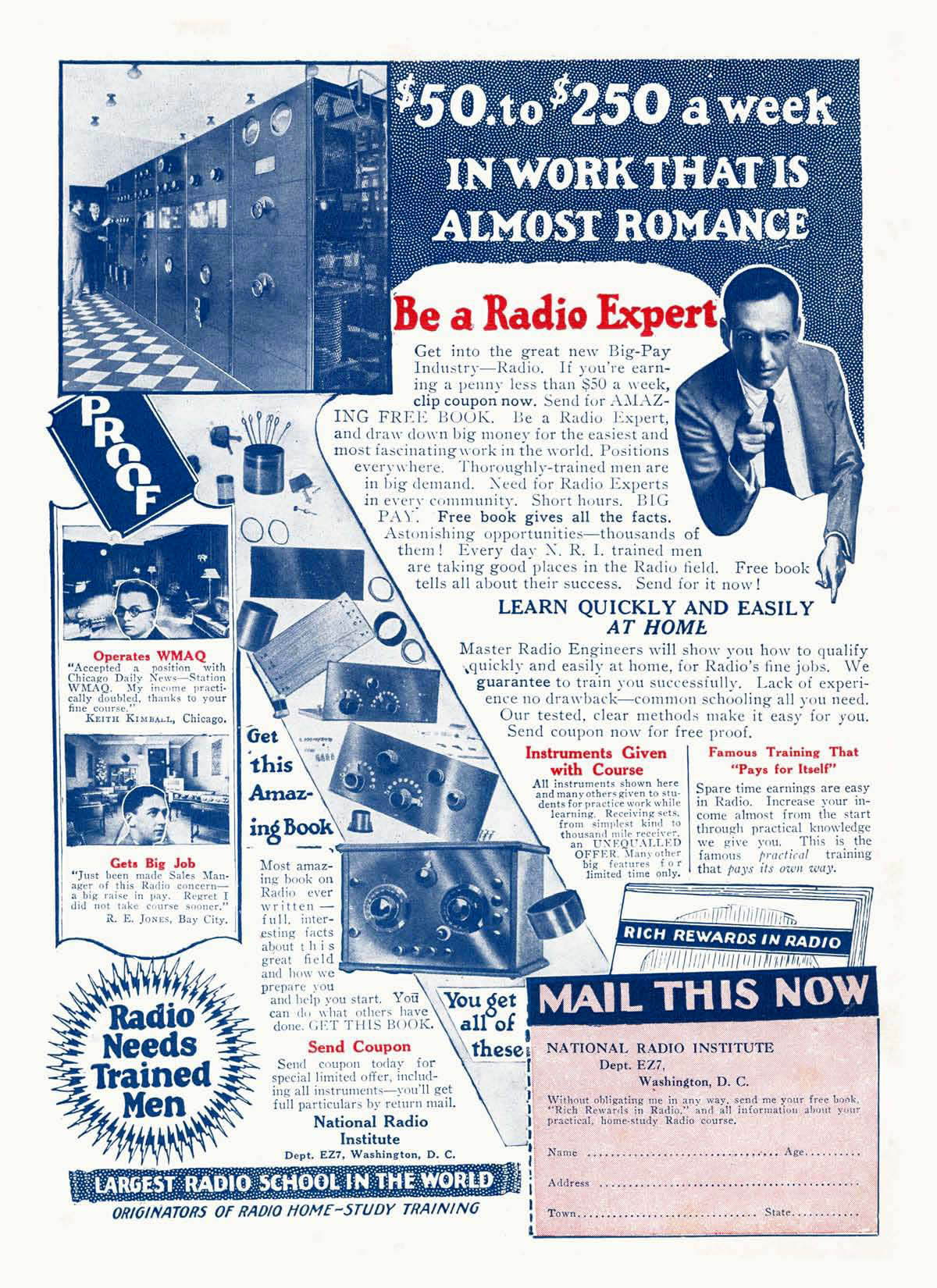 "Be a Radio Expert". Advertisement for the National Radio Institute of Washington D.C. Advertisement from the inside front cover of the pulp magazine Amazing Stories (April 1926, vol. 1, no. 1).